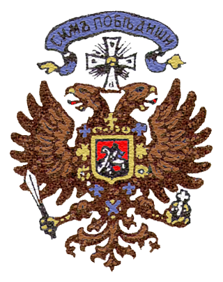 Emblem of the Kolchak government